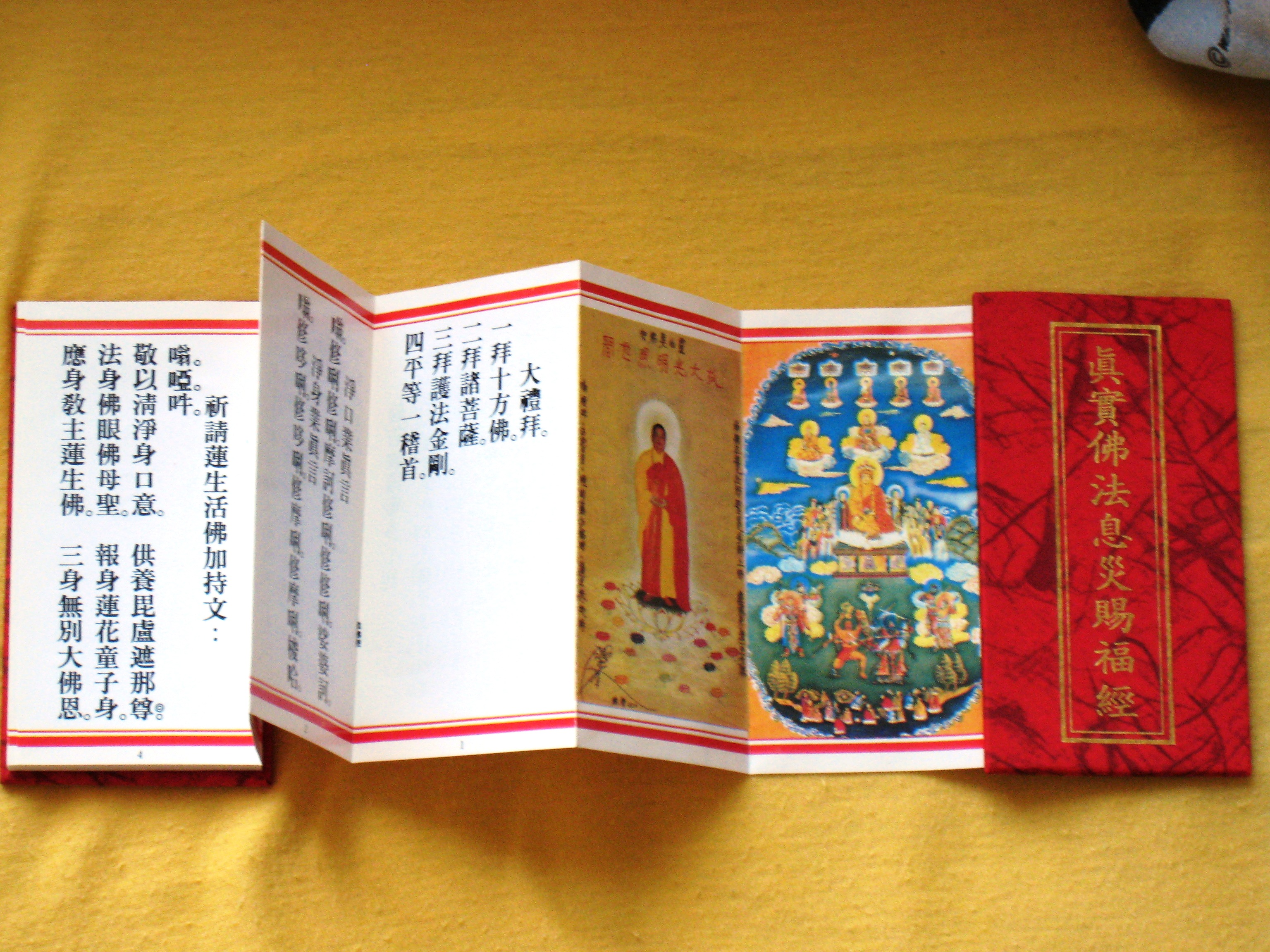 picture of buddhist scriptures